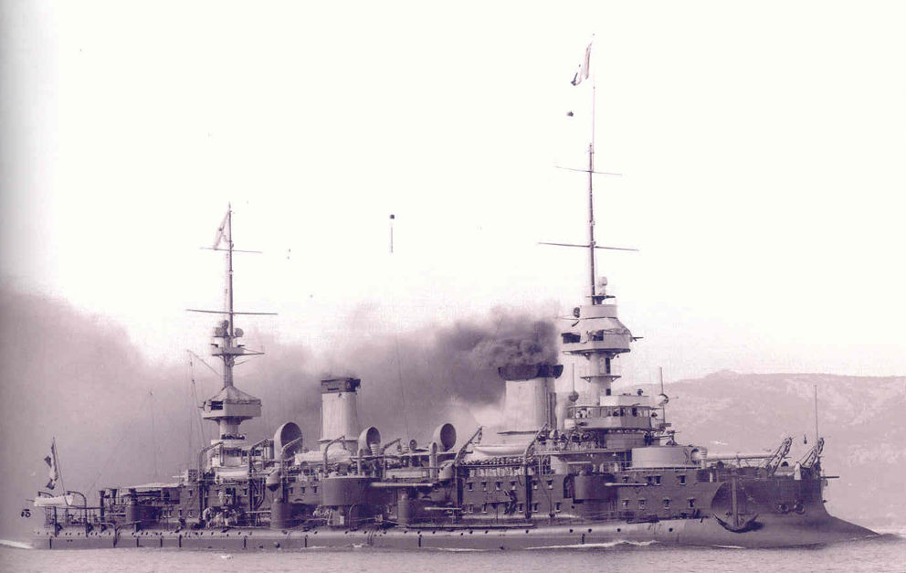 French battleship Masséna